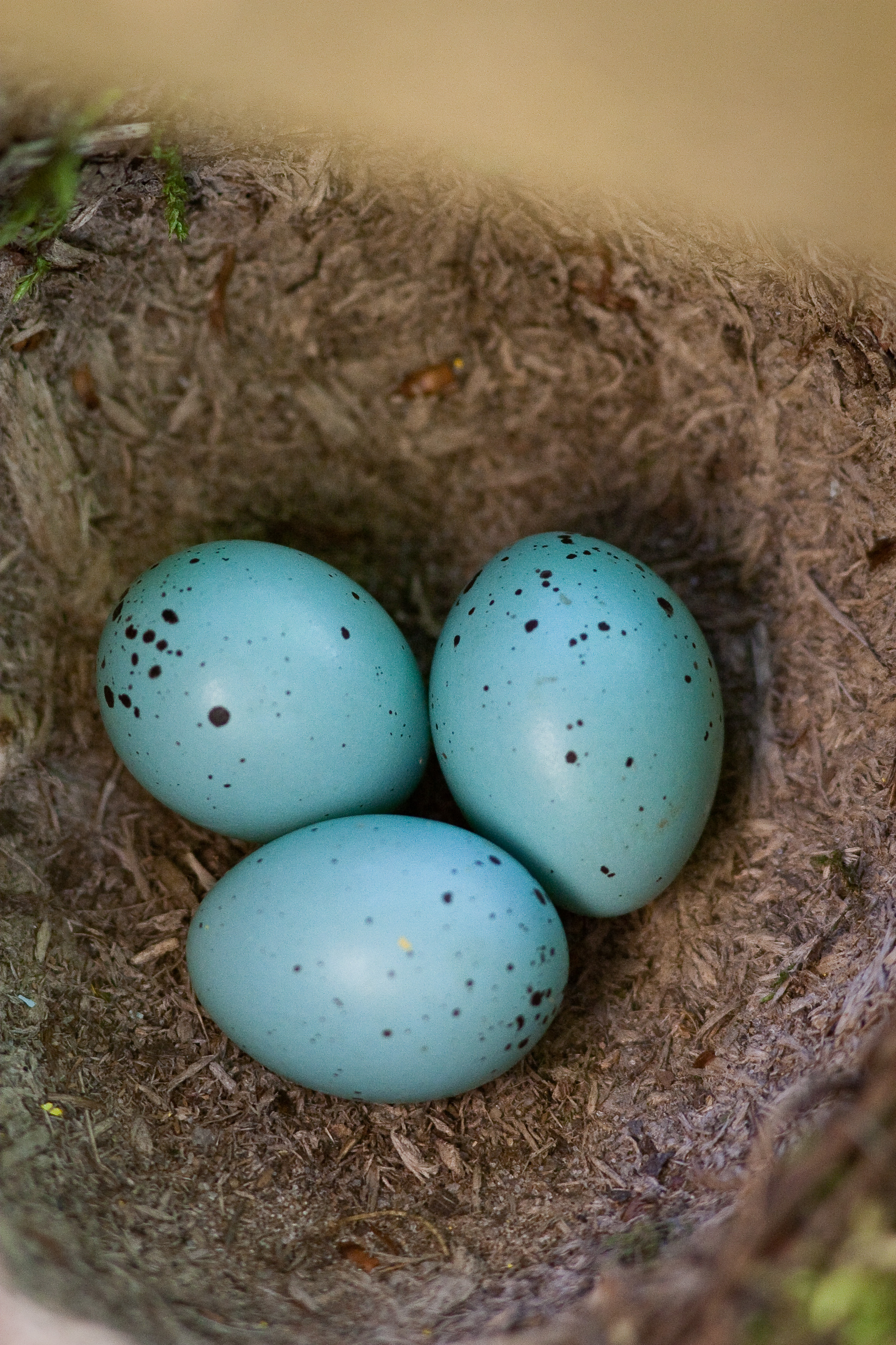 Song Thrush eggs at Apenheul Primate Park, a zoo in Apeldoorn, Netherlands.